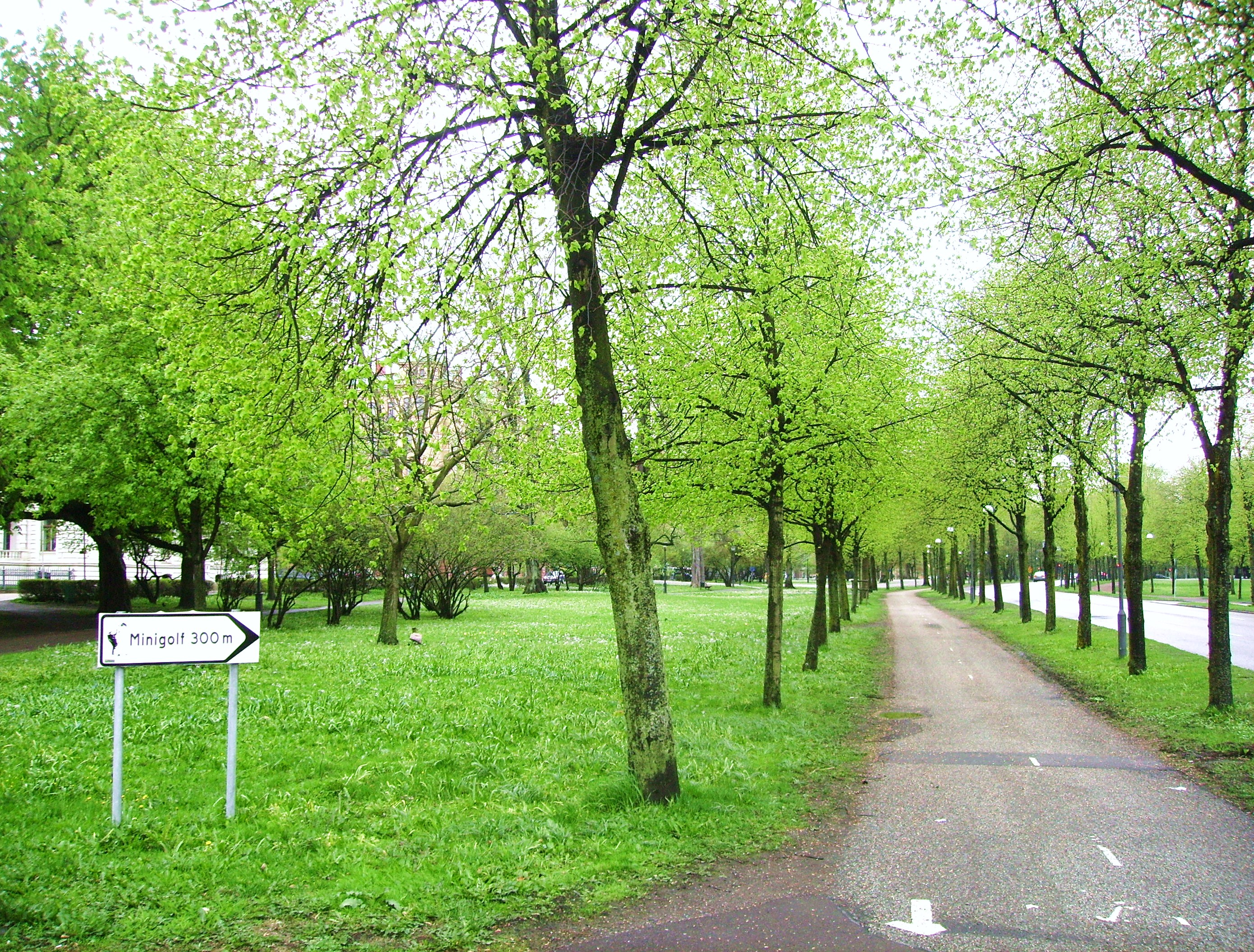 Picture of Nya Allén in Göteborg